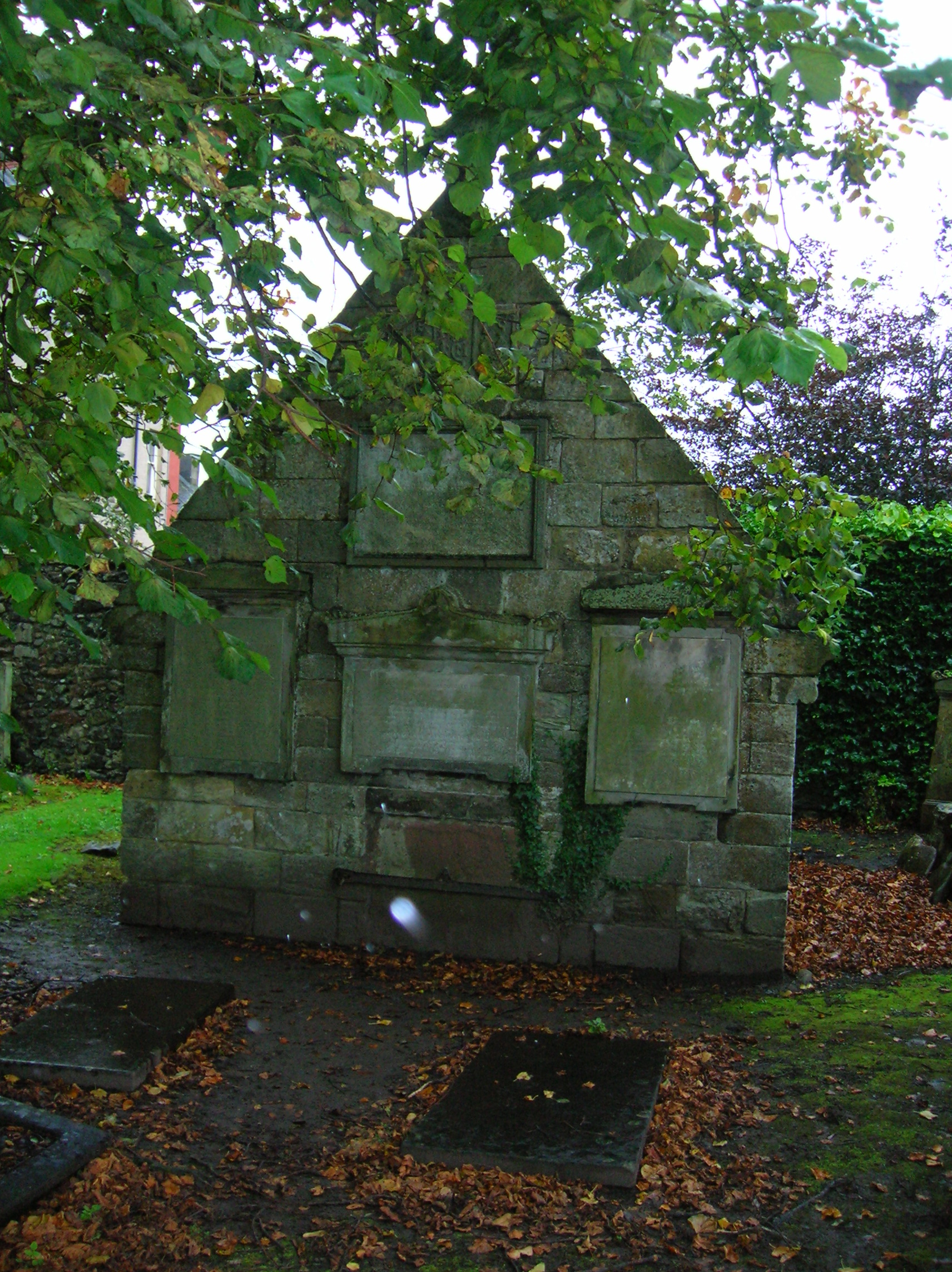 The Brisbane Aisle, Largs, North Ayrshire, Scotland